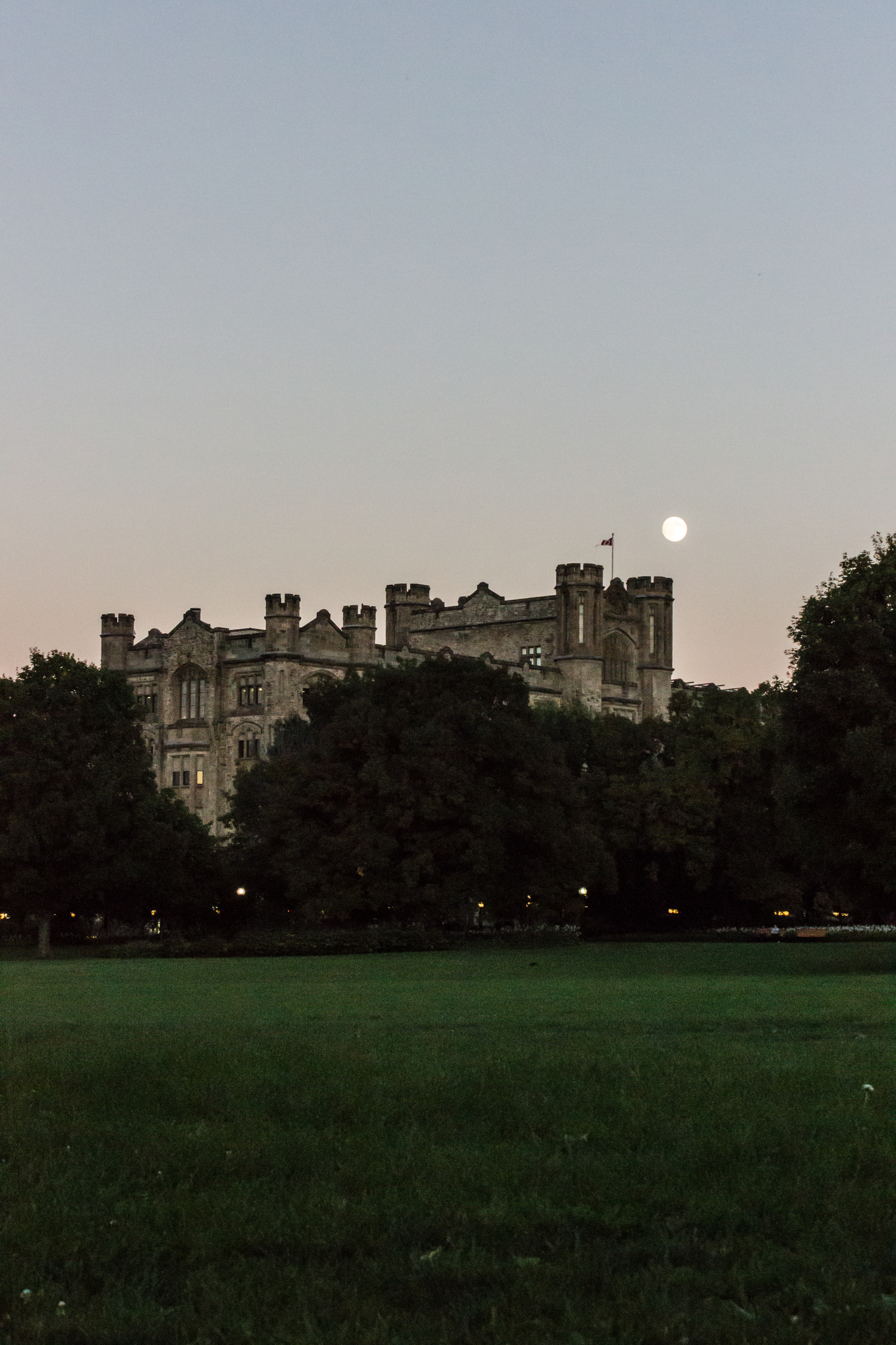 Rising moon over the Connaught Building in Ottawa as seen from Major's Hill Park